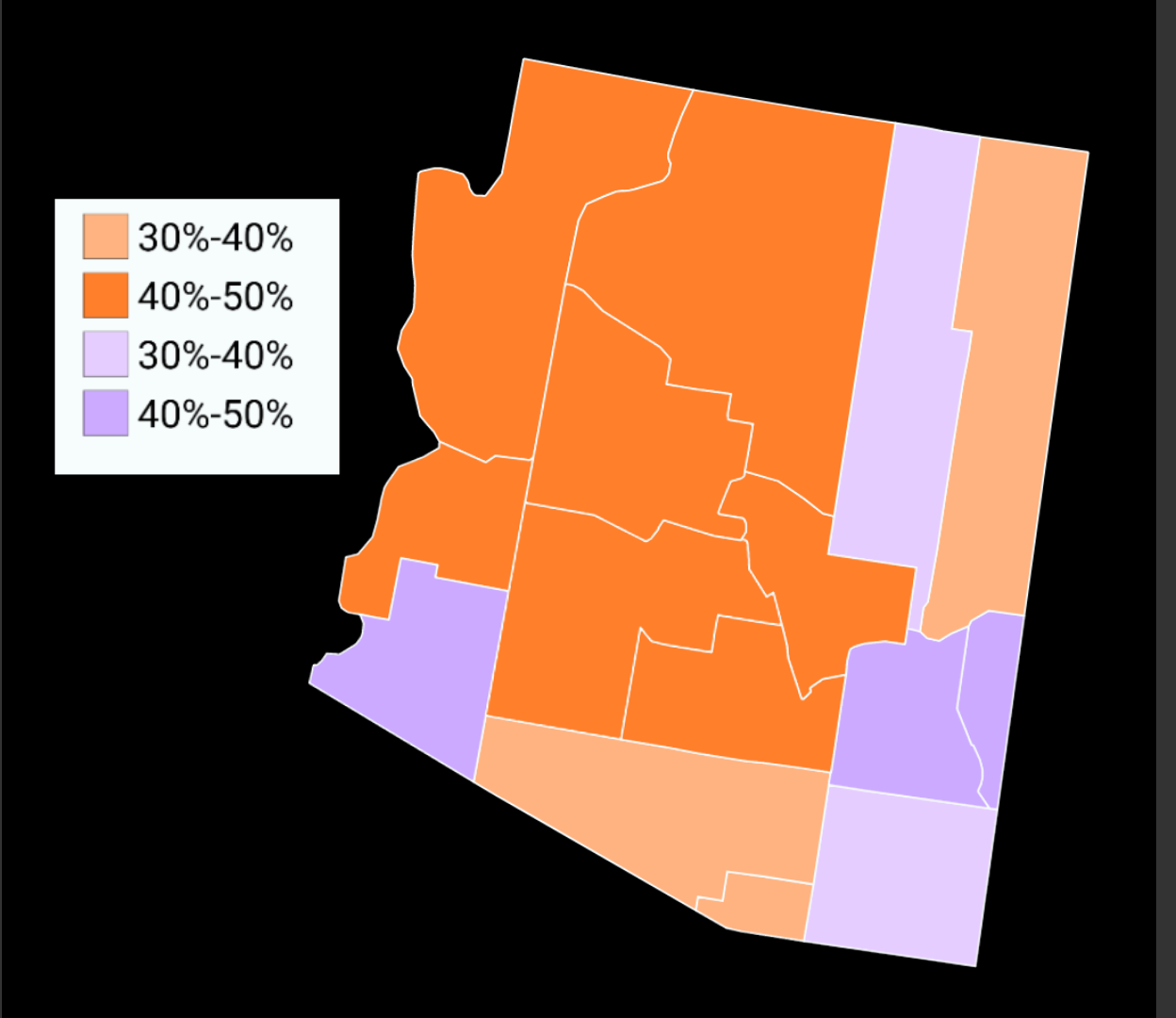 Map showing the county results of the 2014 Arizona Secretary of State Republican primary election. Counties won by Reagan are shown in orange. Counties won by Pierce are shown in purple.